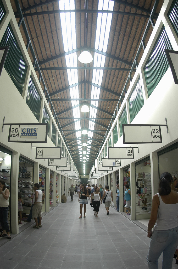 Interior of the public market of Florianópolis, Brazil.